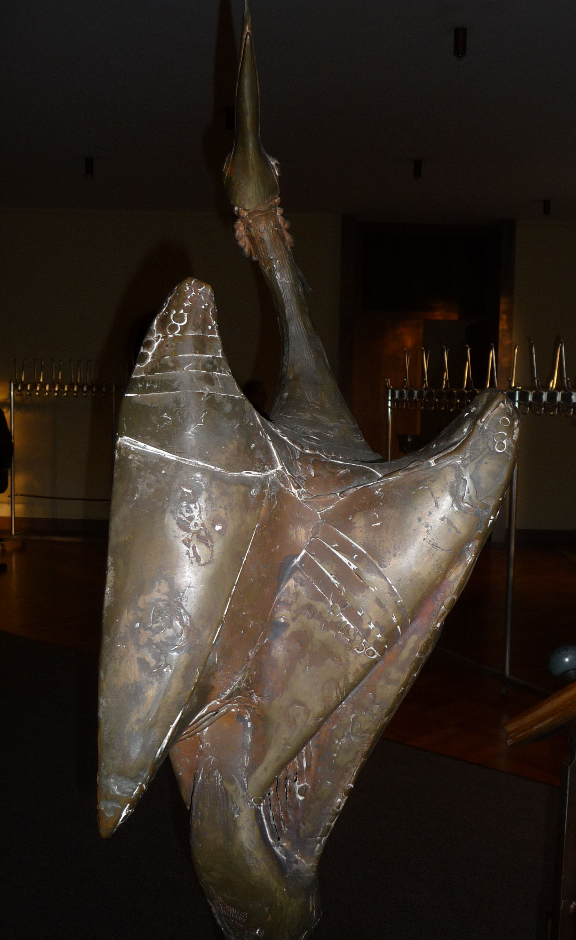 church building in Zweibrücken, Germany